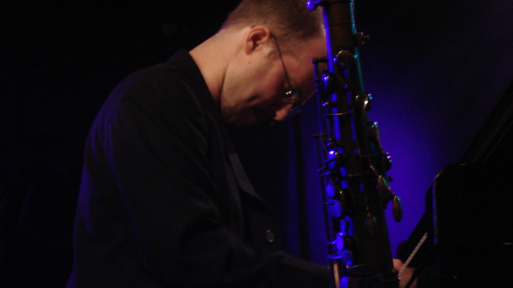 George Colligan